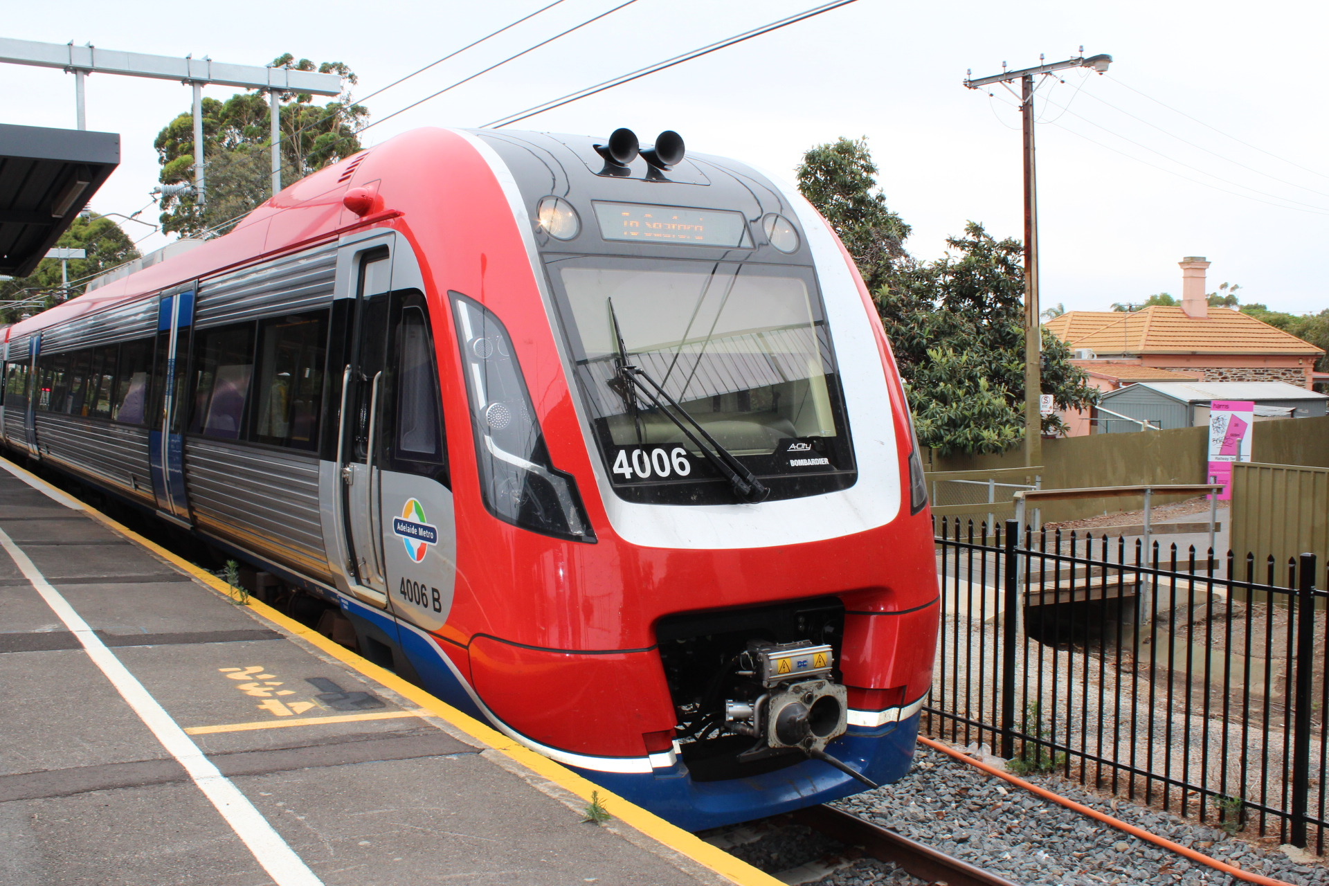 Adelaide Metro 4000 class train at Goodwood.